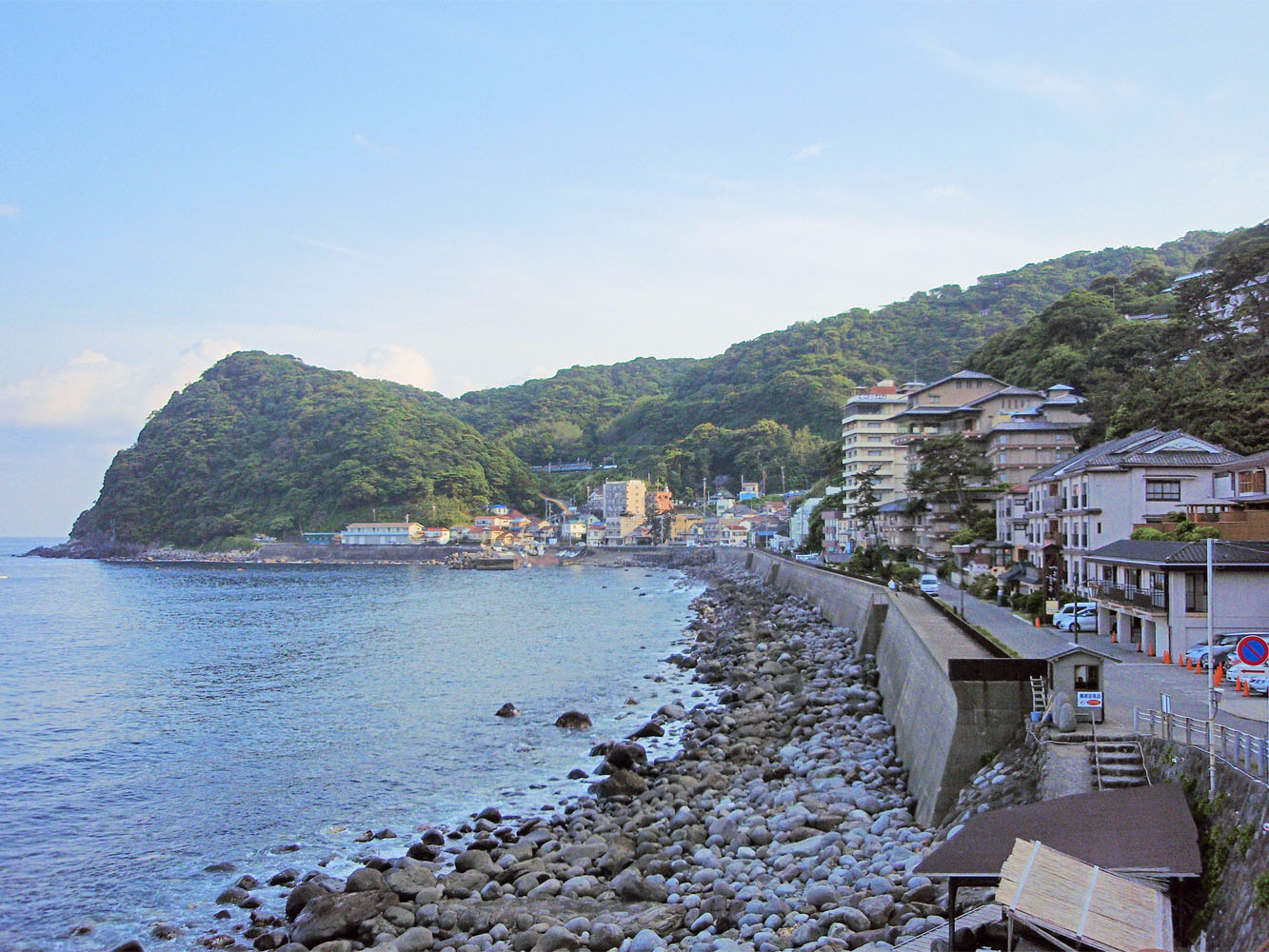 A view of the Hokkawa hot spring resort area in Higashiizu, Shizuoka Prefecture, Japan.